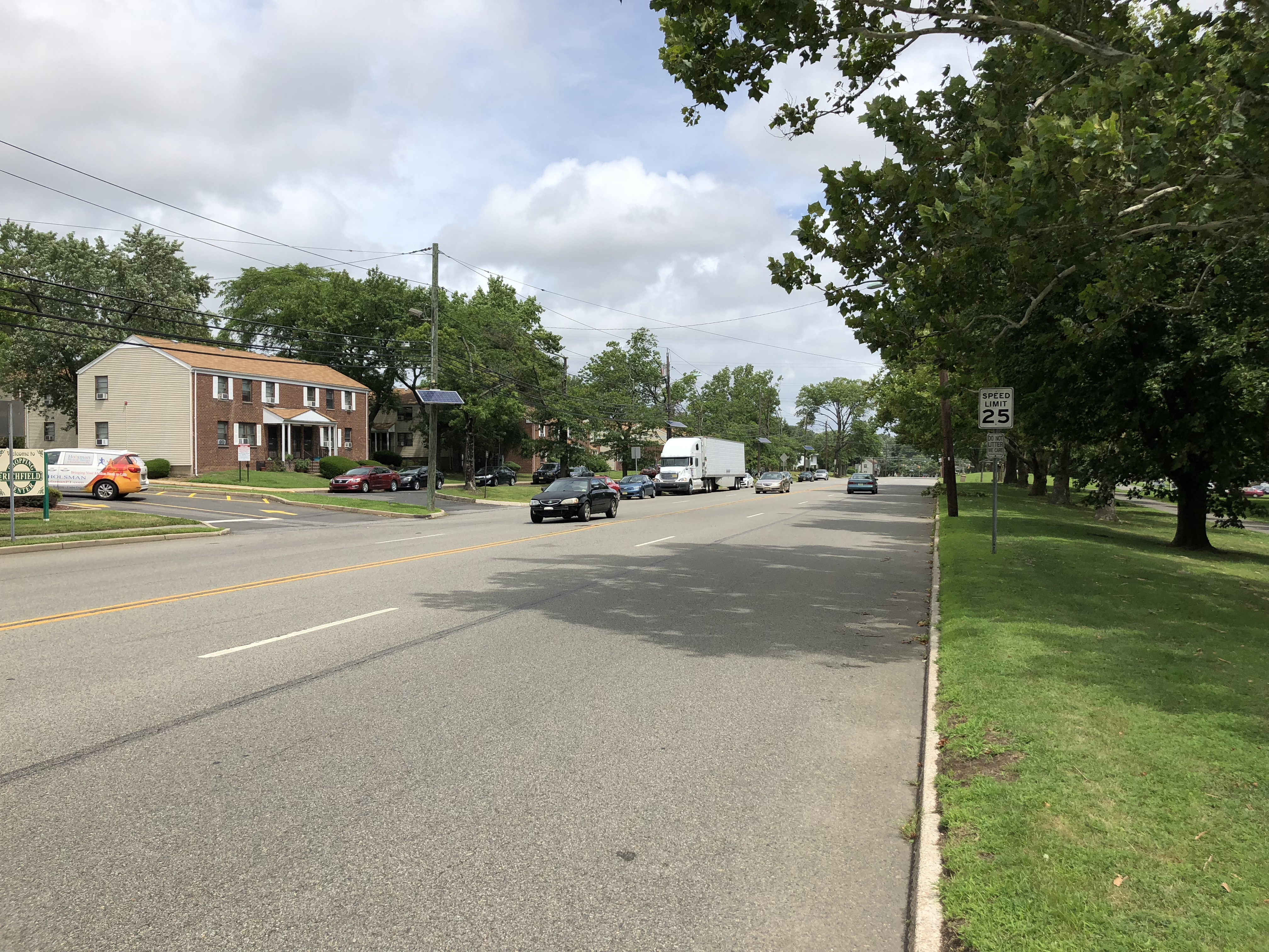 View north along New Jersey State Route 161 (Clifton Avenue) just north of Passaic County Route 602 (Allwood Road) in Clifton, Passaic County, New Jersey